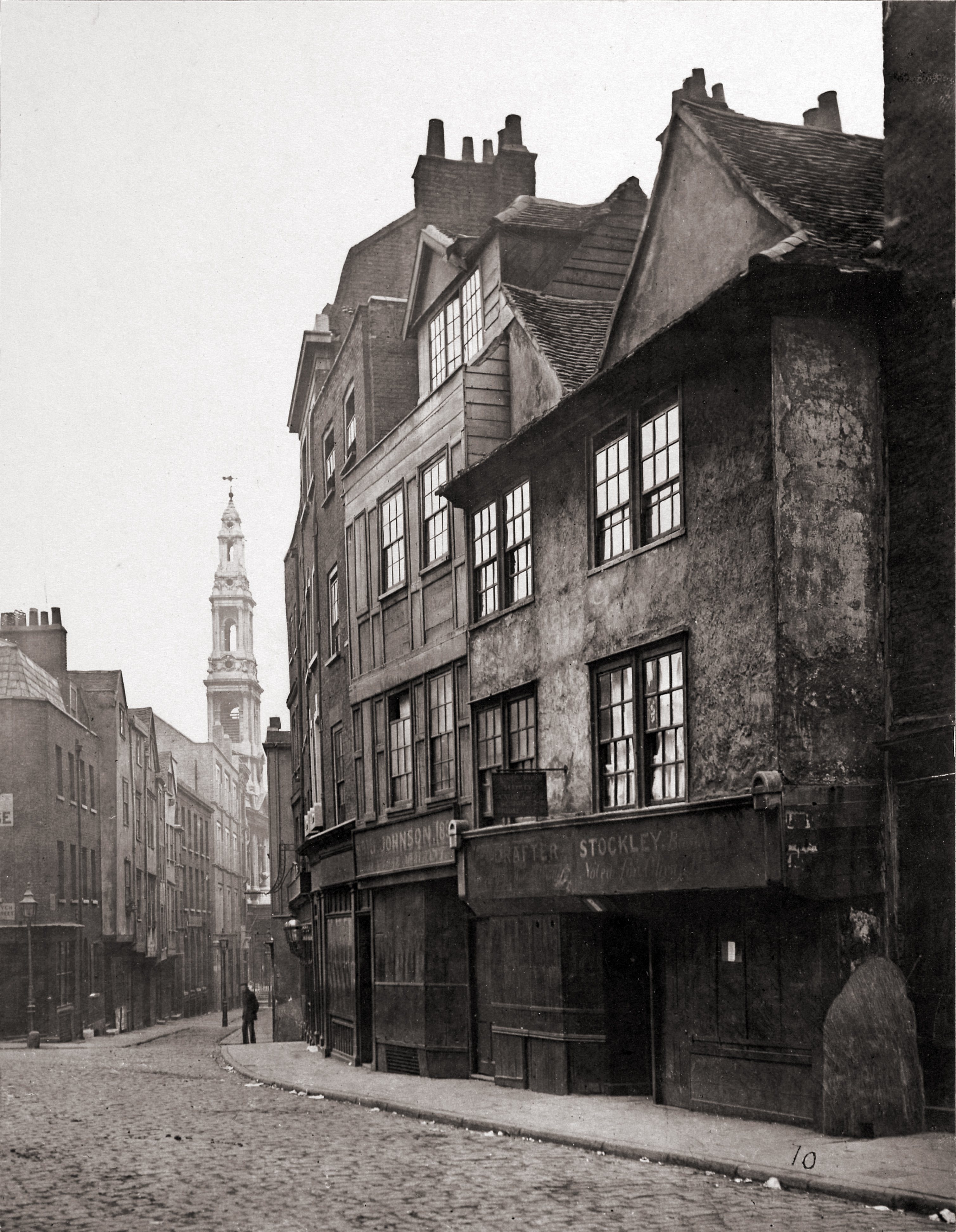 Old houses in Drury Lane, including the former 'Cock and Magpie' tavern (with sign). Courtesy of the British Library.